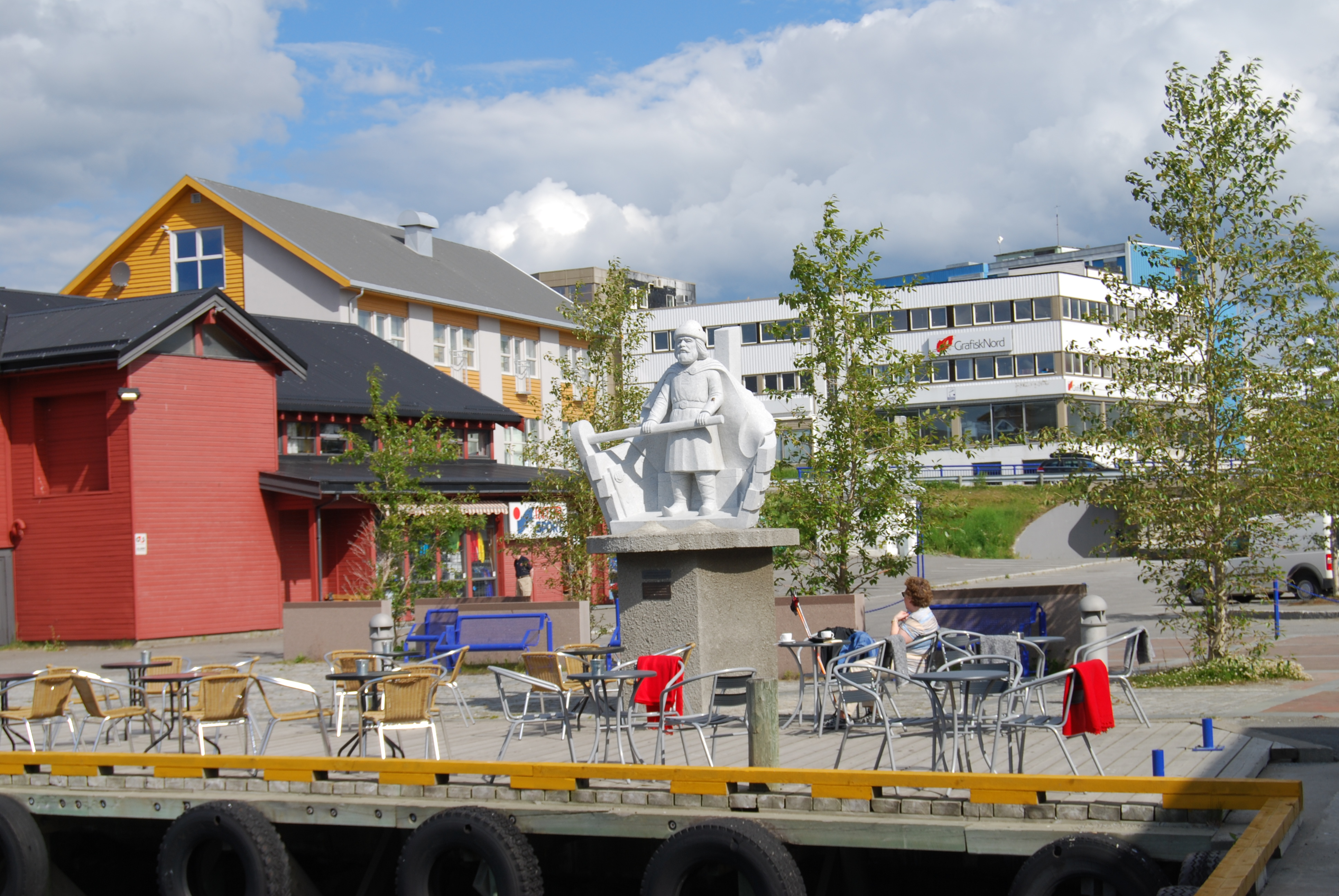 Finnsnes port, Lenvik, Norway.